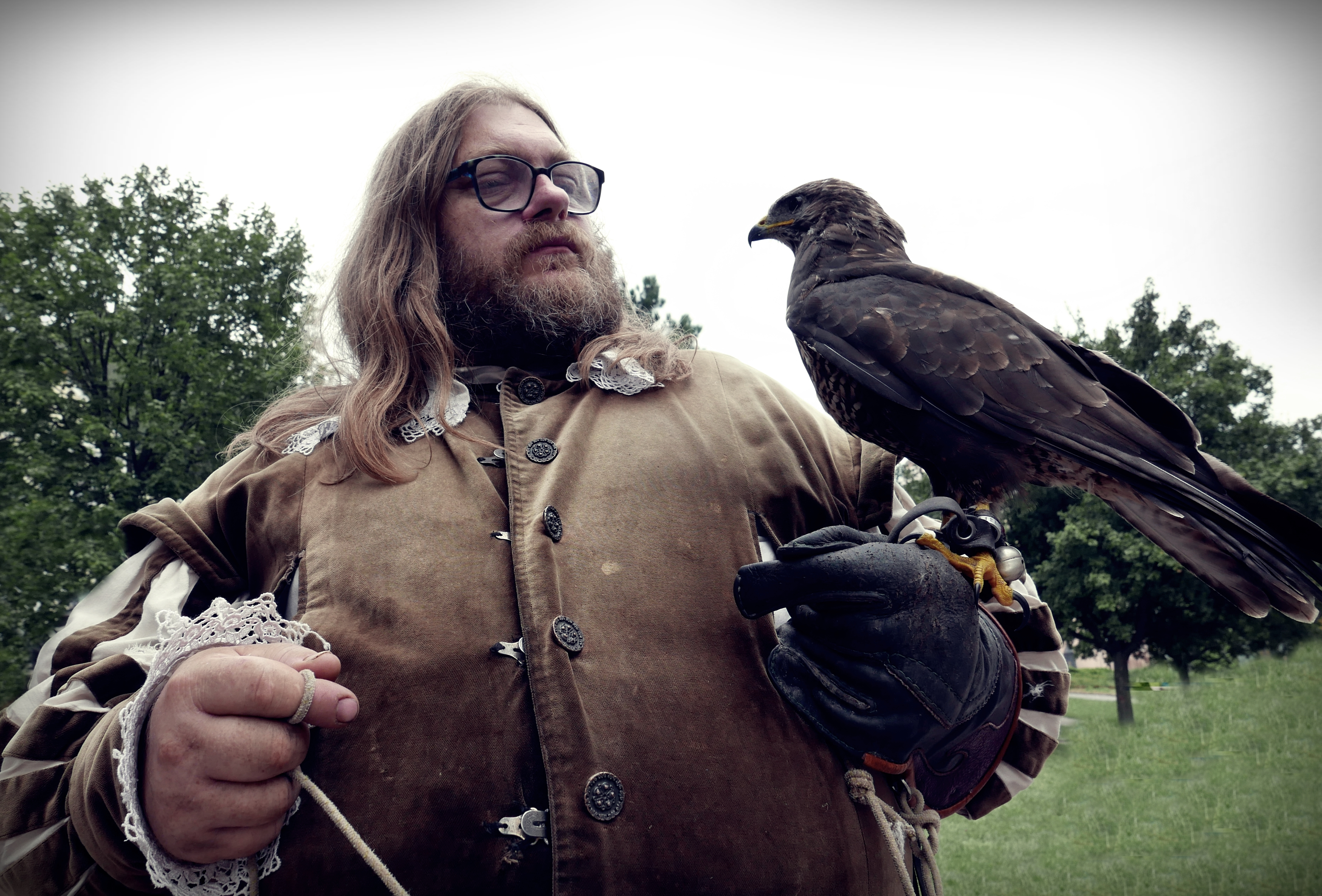 Czech Falconer Marek MONTI Přibyl at the show in Stramberk